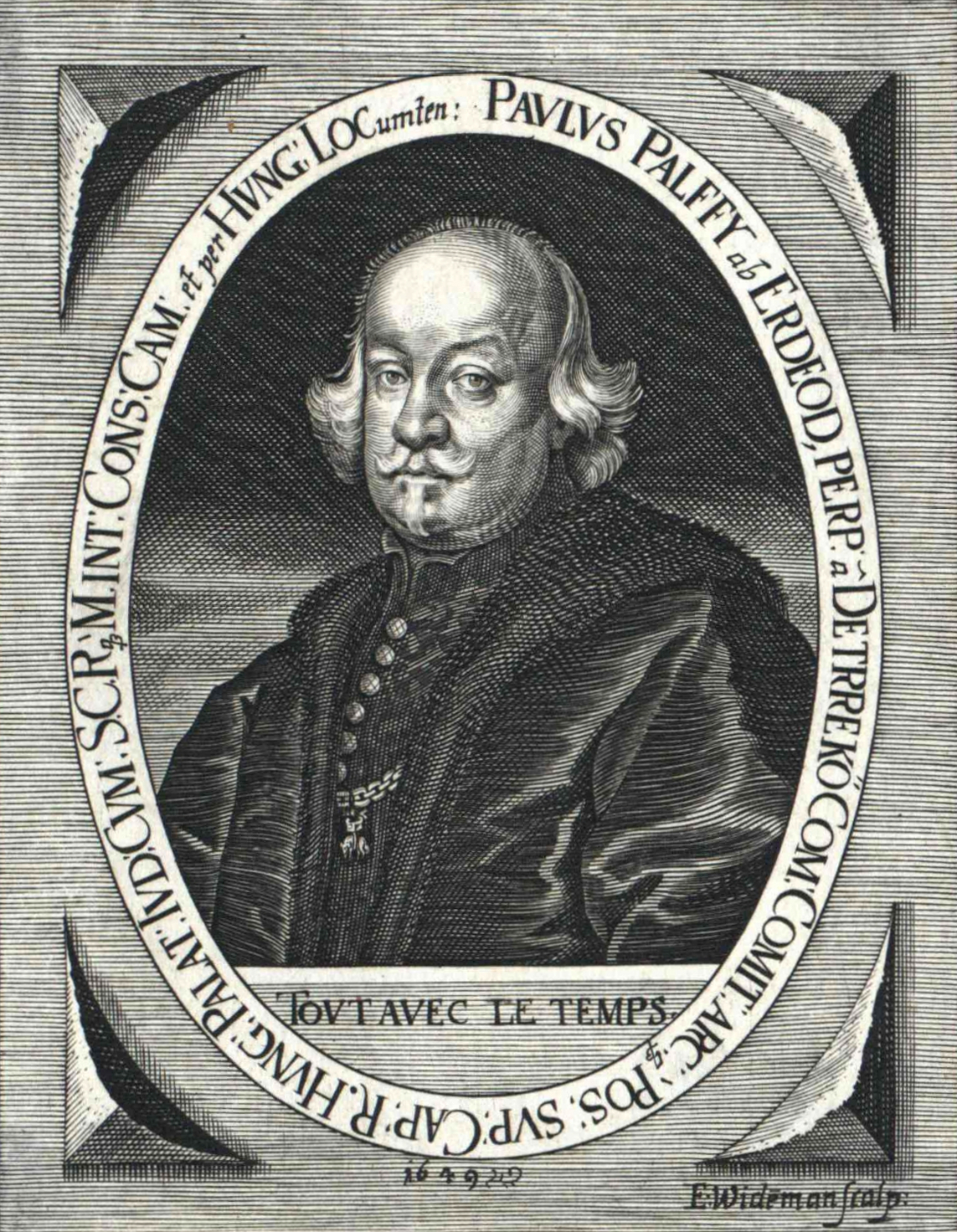 Portrait Paul Pálffy von Erdöd (Pálffy Pál), Palatine of Hungary